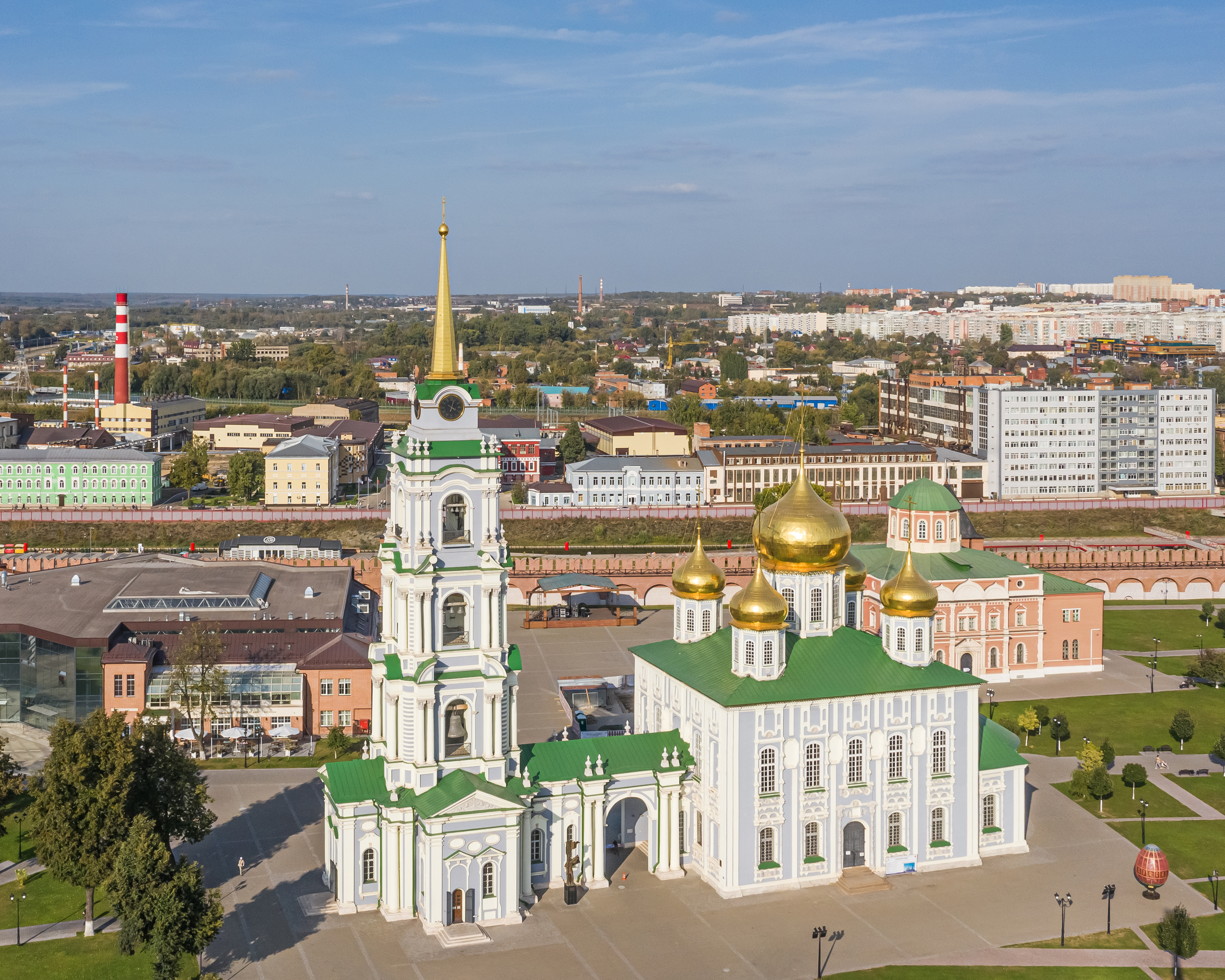 Aerial photo of the Kremlin (Assumption Cathedral) in Tula, Russia